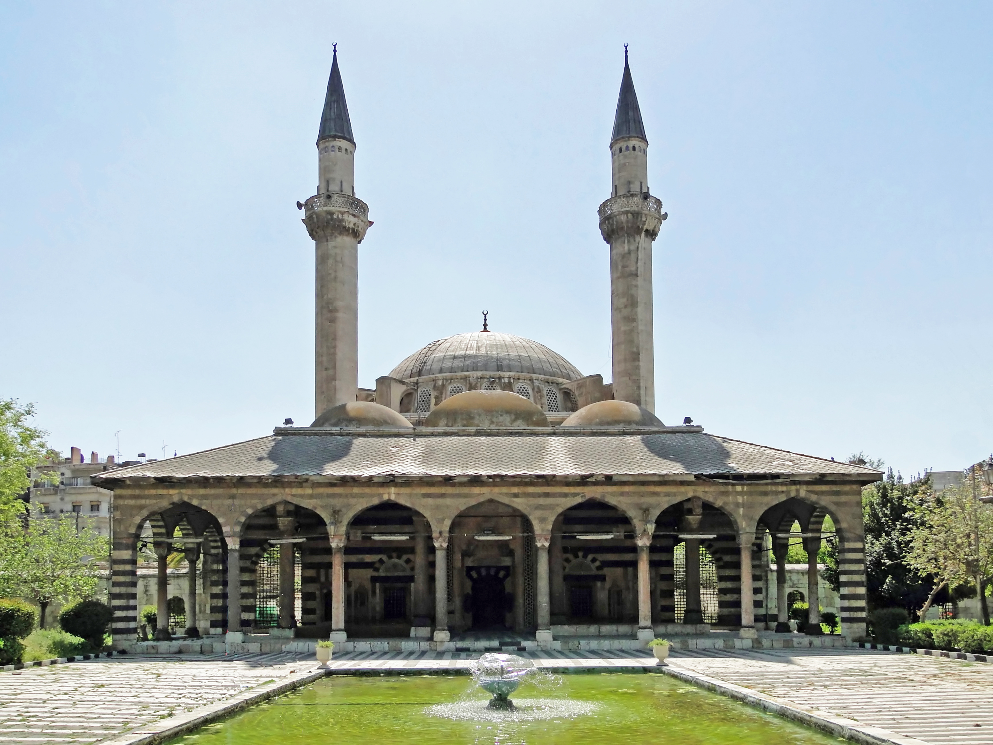 Takiyya as-Süleimaniyya Mosque, Damascus, Syria